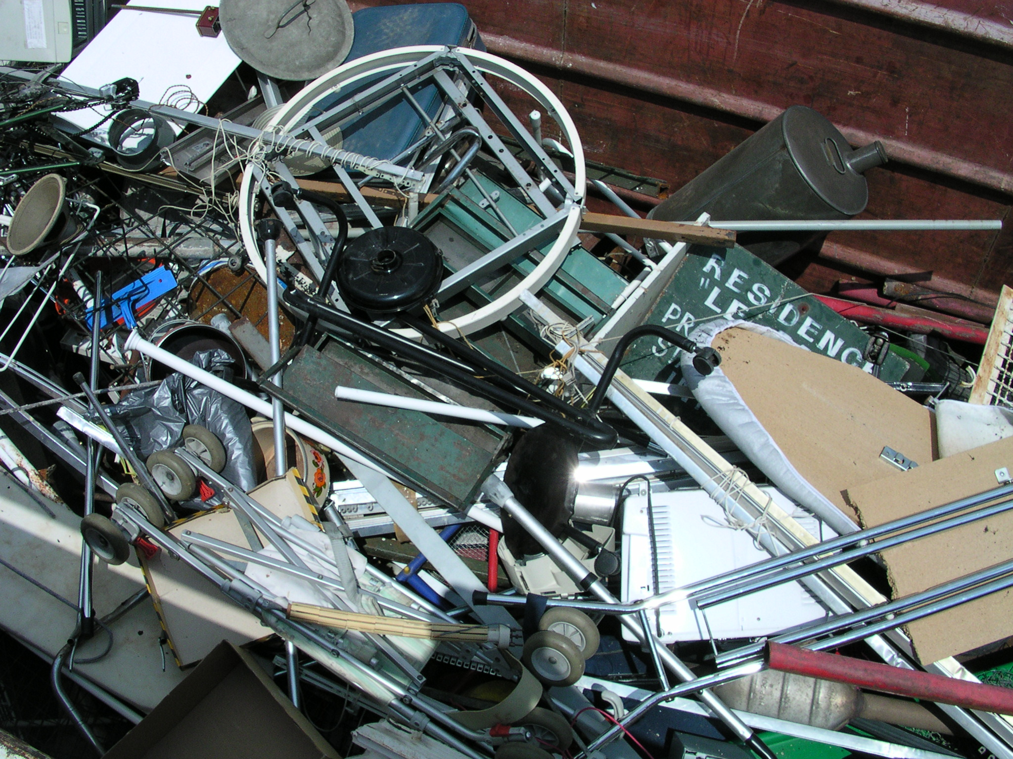 Scrap Metal